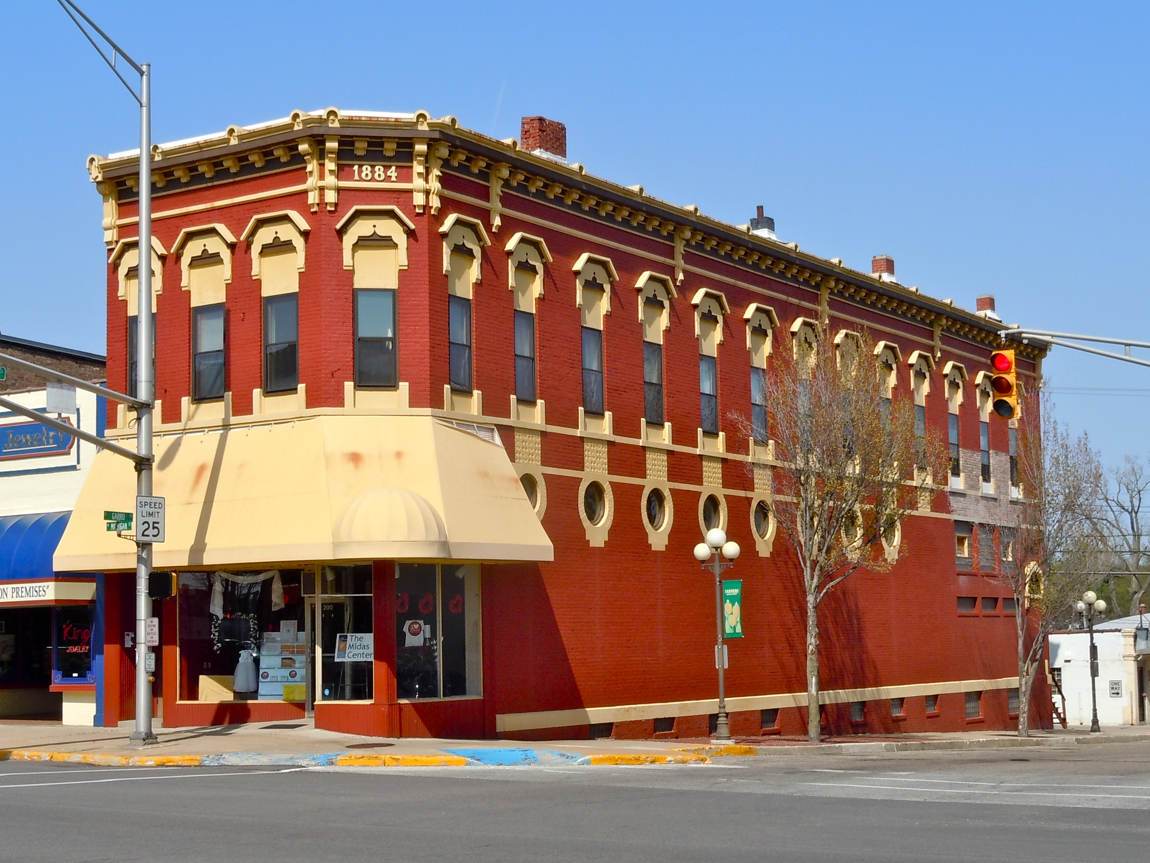 Plymouth Downtown Historic District on the NRHP since December 17, 1998. The historic district is roughly bounded by Center, Washington, and Water Sts., and the Yellow River, Plymouth, Marshall County, Indiana.